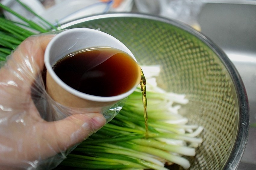 aekjeot (liquid jeotgal): Korean equivalent of fish sauce